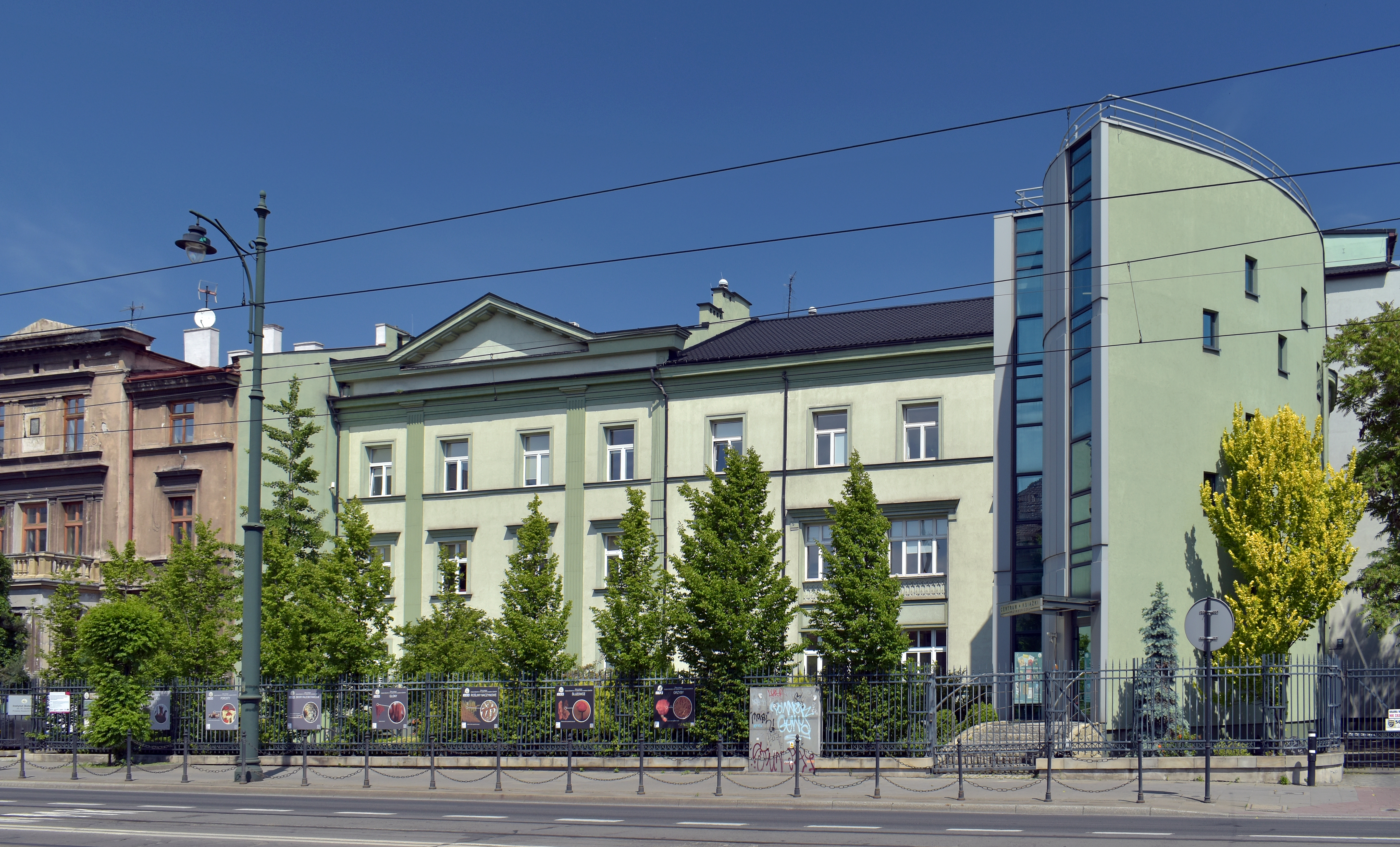 Polish Academy of Sciences-Wladyslaw Szafer Institute of Botany, 46 Lubicz street, Krakow, Poland